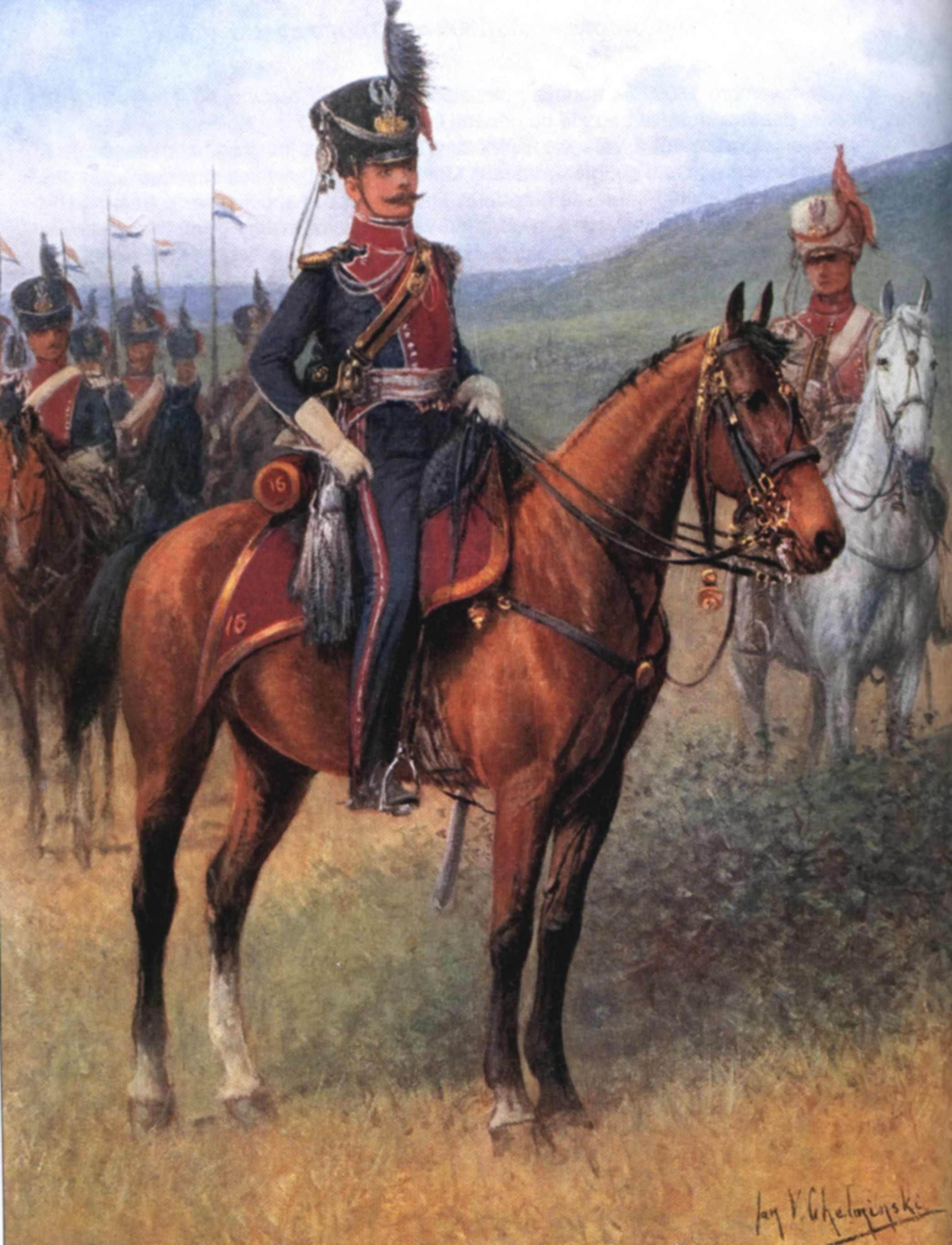 16th Uhlans Regiment of Duchy of Warsaw